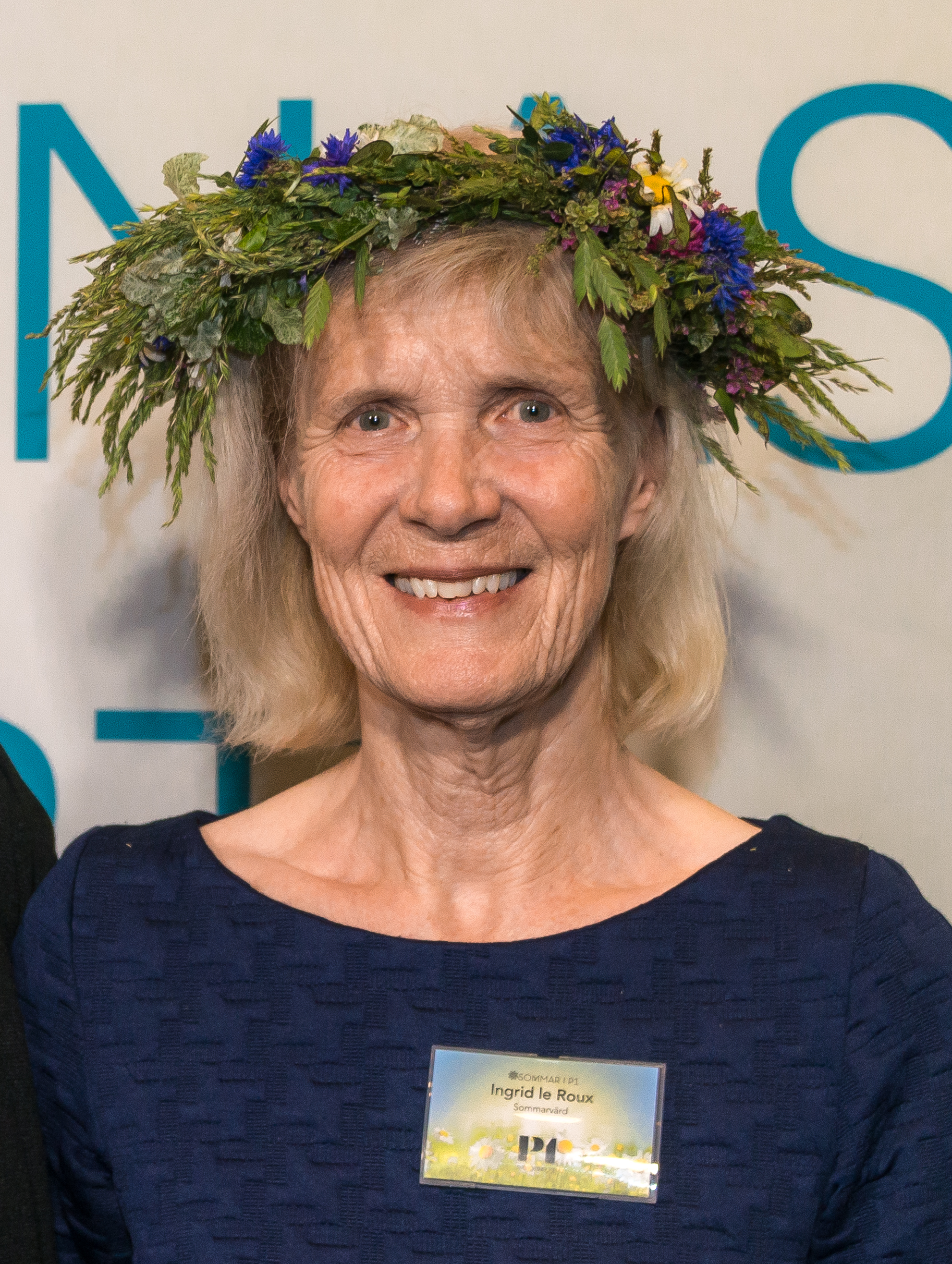 Summer host in P1 in Sweden's radio 2019.